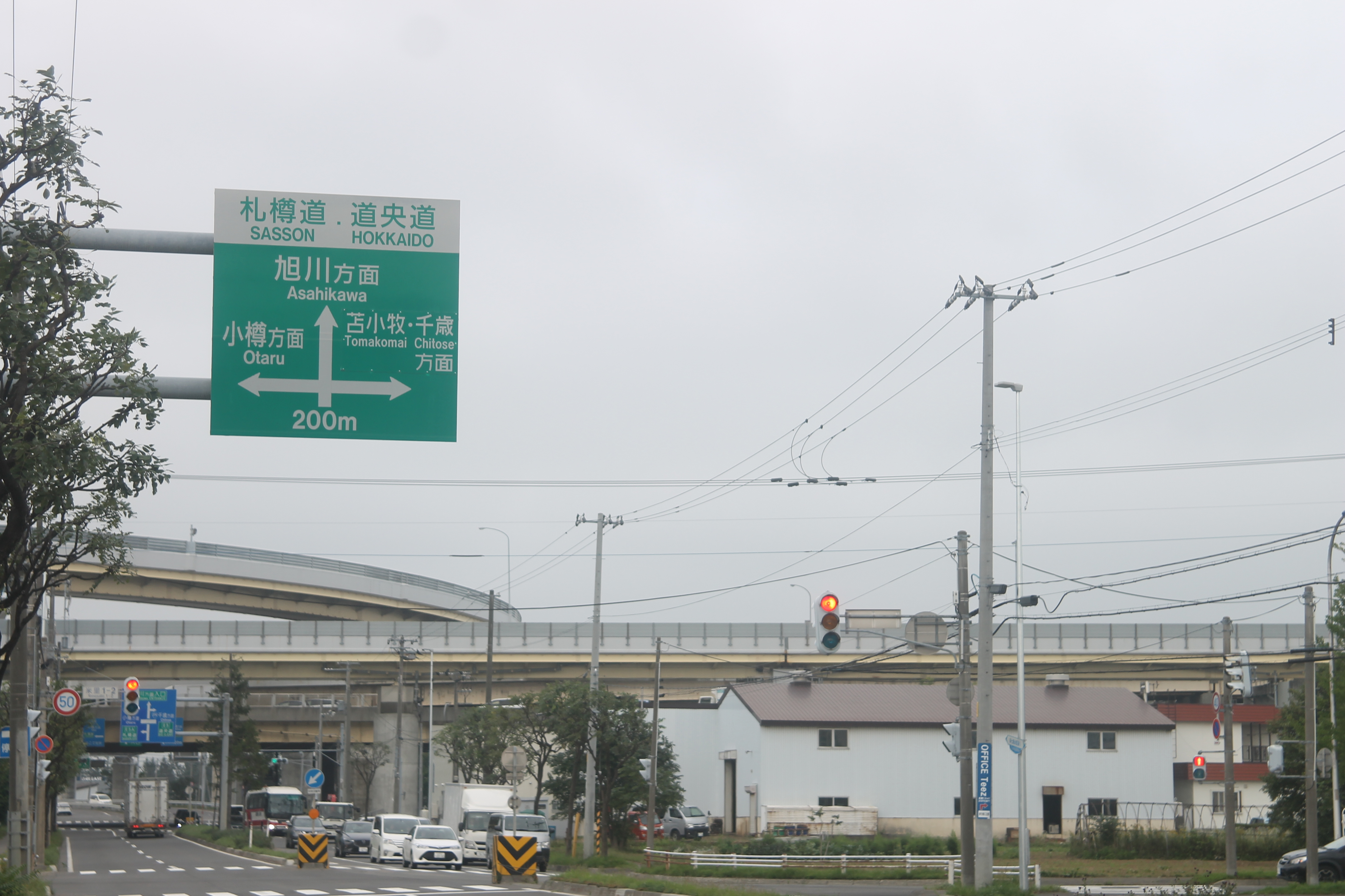 Entrance of Sapporo Junction (Hokkaido Expressway, Sasson Expressway) located in Yonesato, Shiroishi Ward, Sapporo